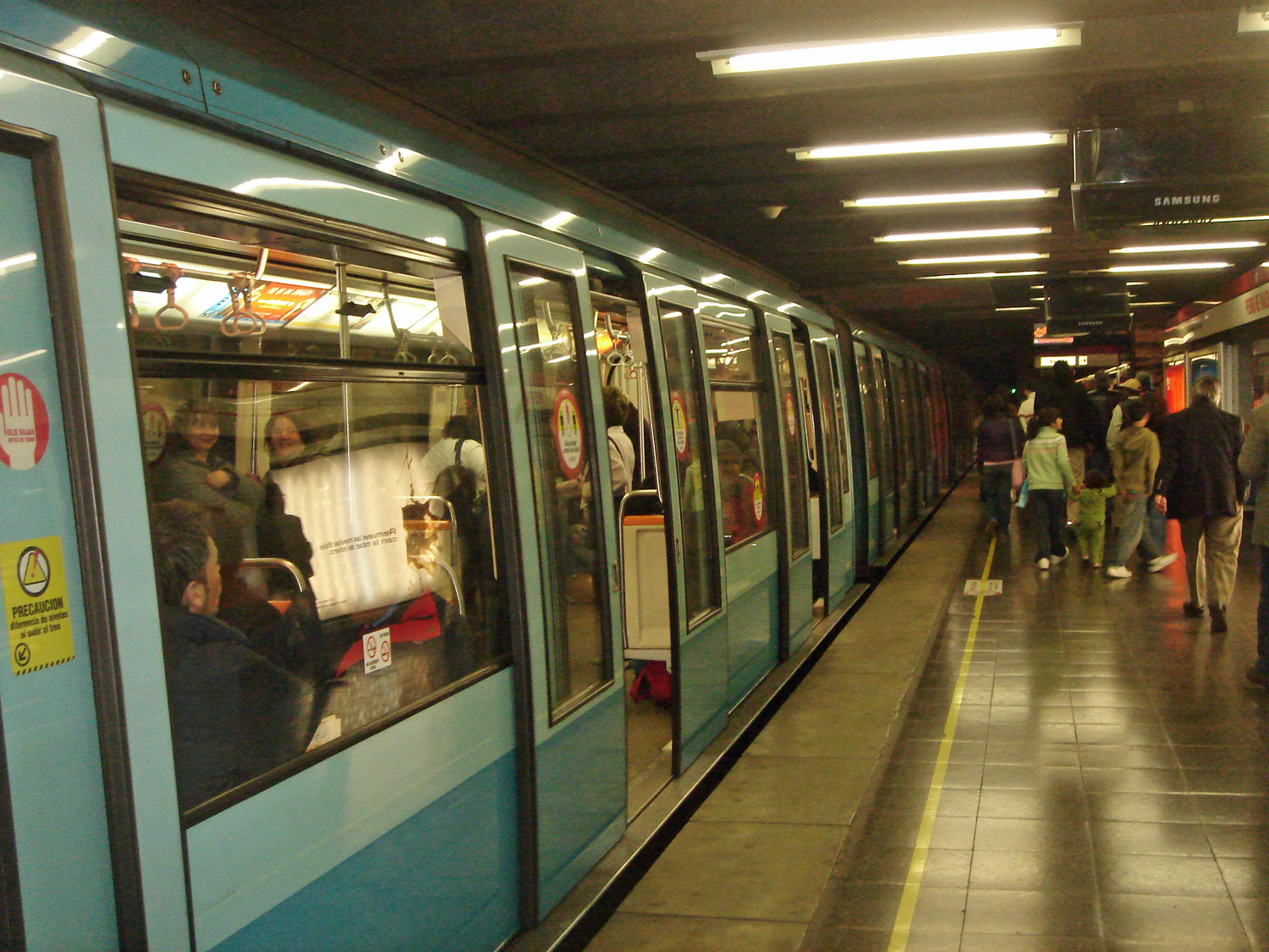 Pedro de Valdivia station, Metro de Santiago, Chile